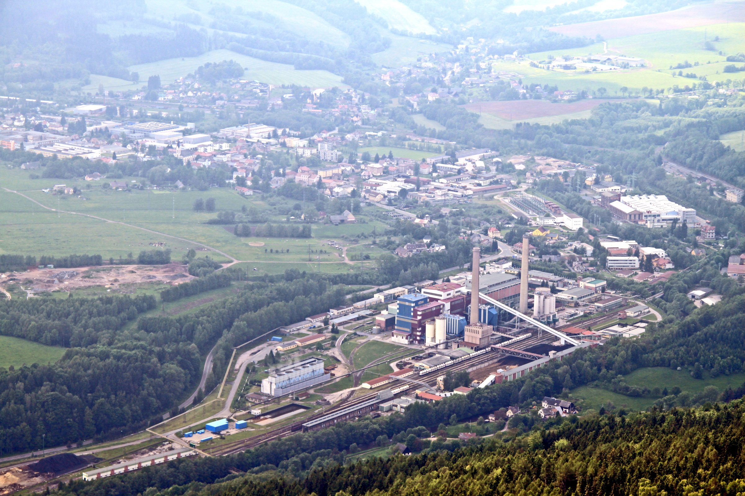 Easten part of town Trutnov - Poříčí from air, eastern Bohemia, Czech Republic